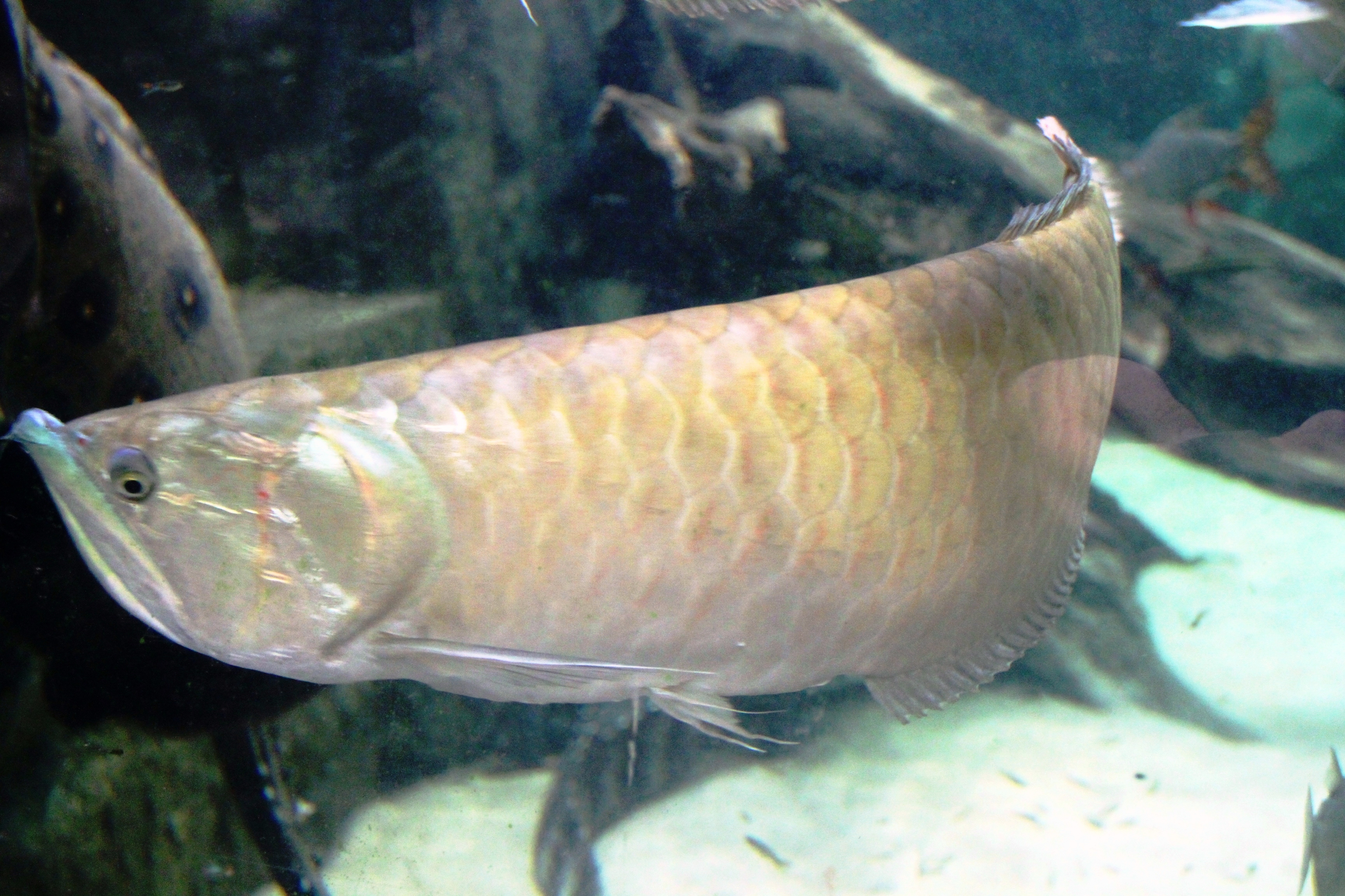 Osteoglossum bicirrhosum at the Universeum Science Park in Gothenburg, Sweden.